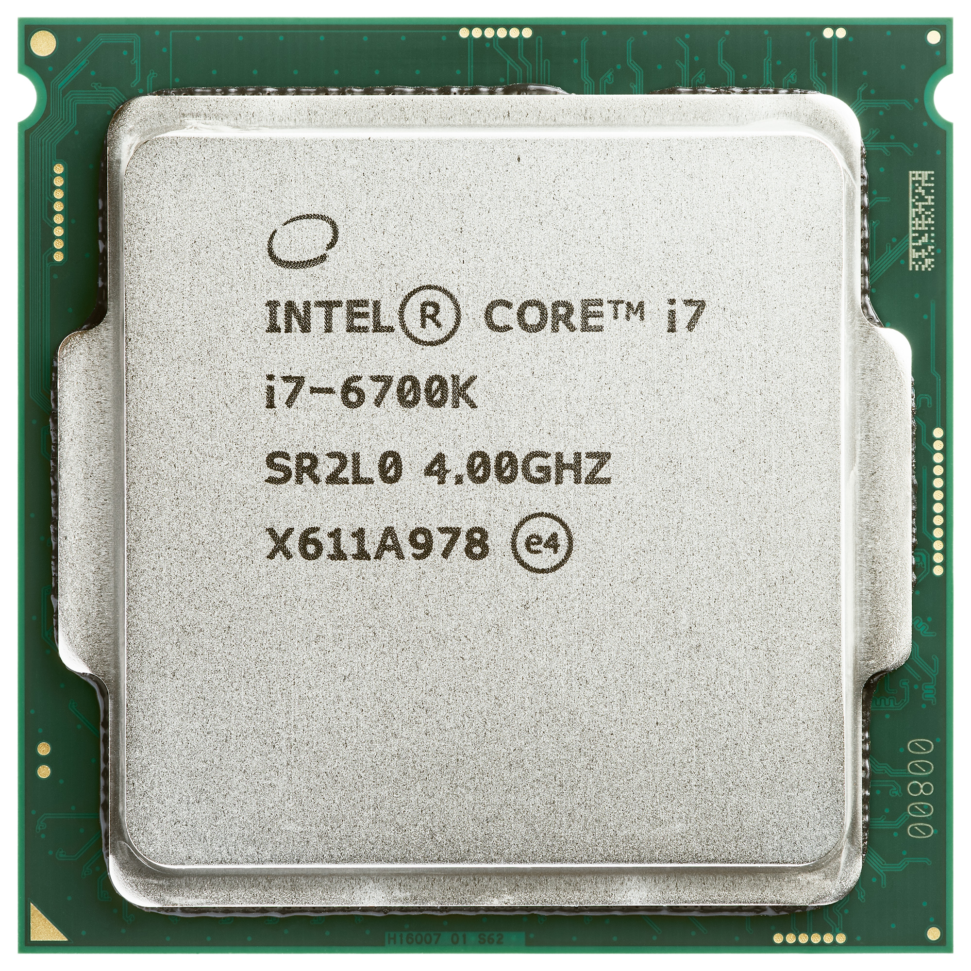 Top view of an Intel central processing unit Core i7 Skylake type core, model 6700K. LGA 1151 socket, 14 nm process, core frequency 4.00 GHz. Manufactured in Vietnam.